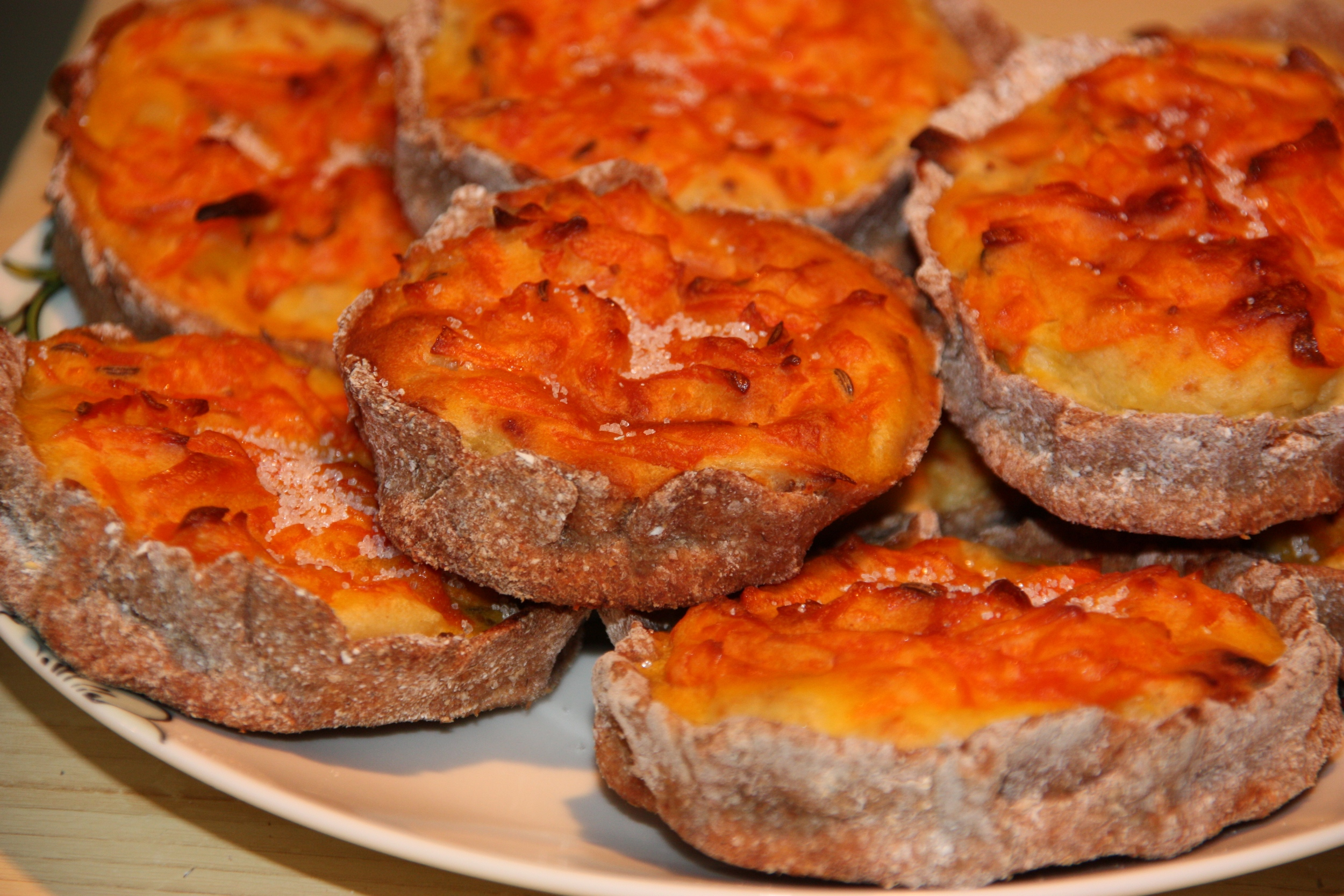 The sklandrausis, a small, almost bite-sized pie made of rye flour with a filling of potatoes and carrots, a unique dish from the western part of Latvia, Kurzeme, has received a “Traditional Speciality Guaranteed” designation from the European Commission.